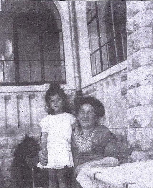 Shulamit Ruppin with her daughter.